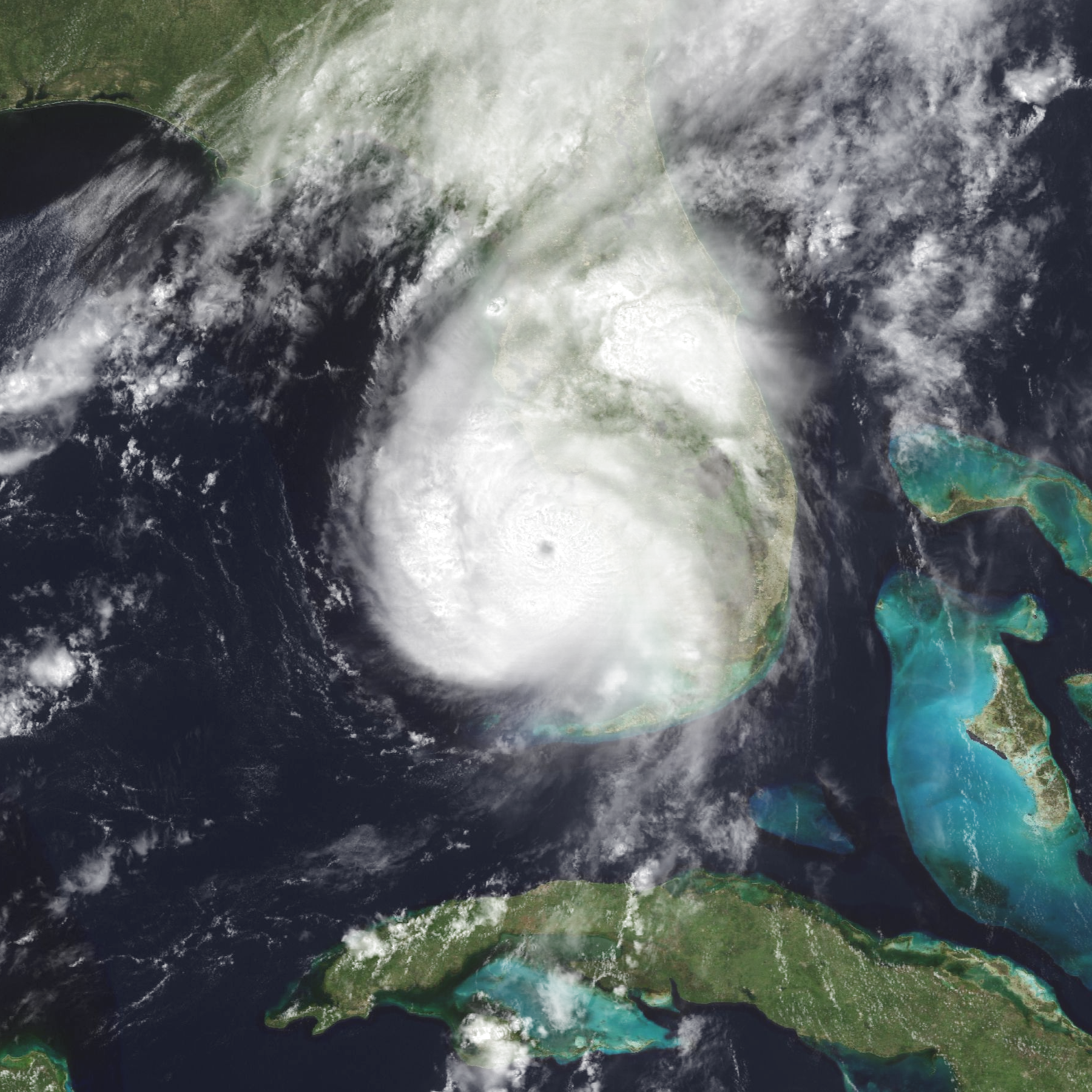 Hurricane Charley shortly before peak intensity near landfall in Florida on August 13, 2004